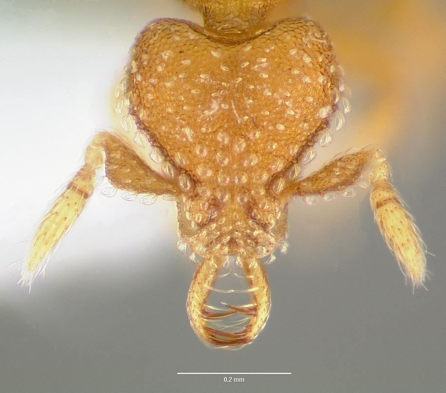 Head view of ant Strumigenys mola specimen casent0005605.